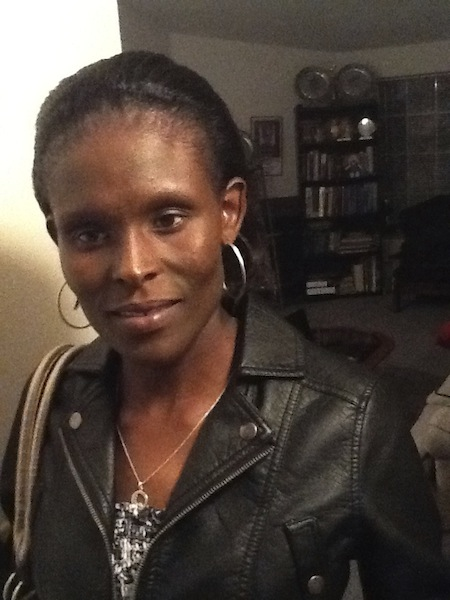 Sally K the Olympic Silver Medalsit